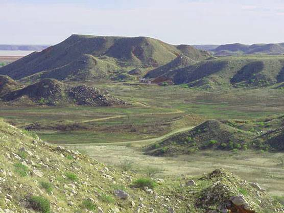 Alibates Flint Quarries National Monument, Texas, USA - Hills in the National Monument